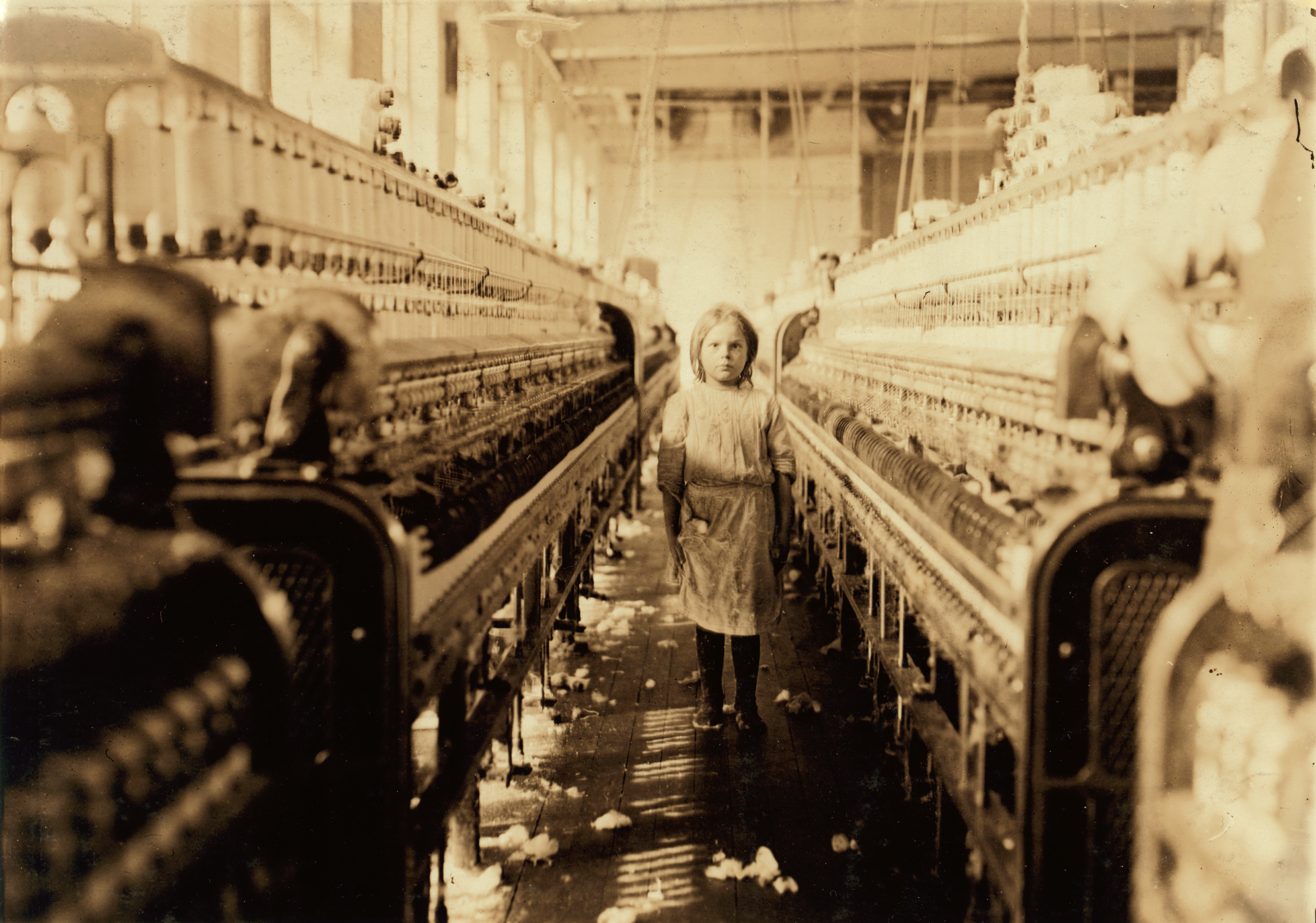 She was tending her "sides" like a veteran, but after I took the photo, the overseer came up and said in an apologetic tone that was pathetic, "She just happened in." Then a moment later he repeated the information. The mills appear to be full of youngsters that "just happened in," or "are helping sister." Dec. 3, 08. Witness Sara R. Hine. Location: Newberry, South Carolina / Photo by Lewis W. Hine.